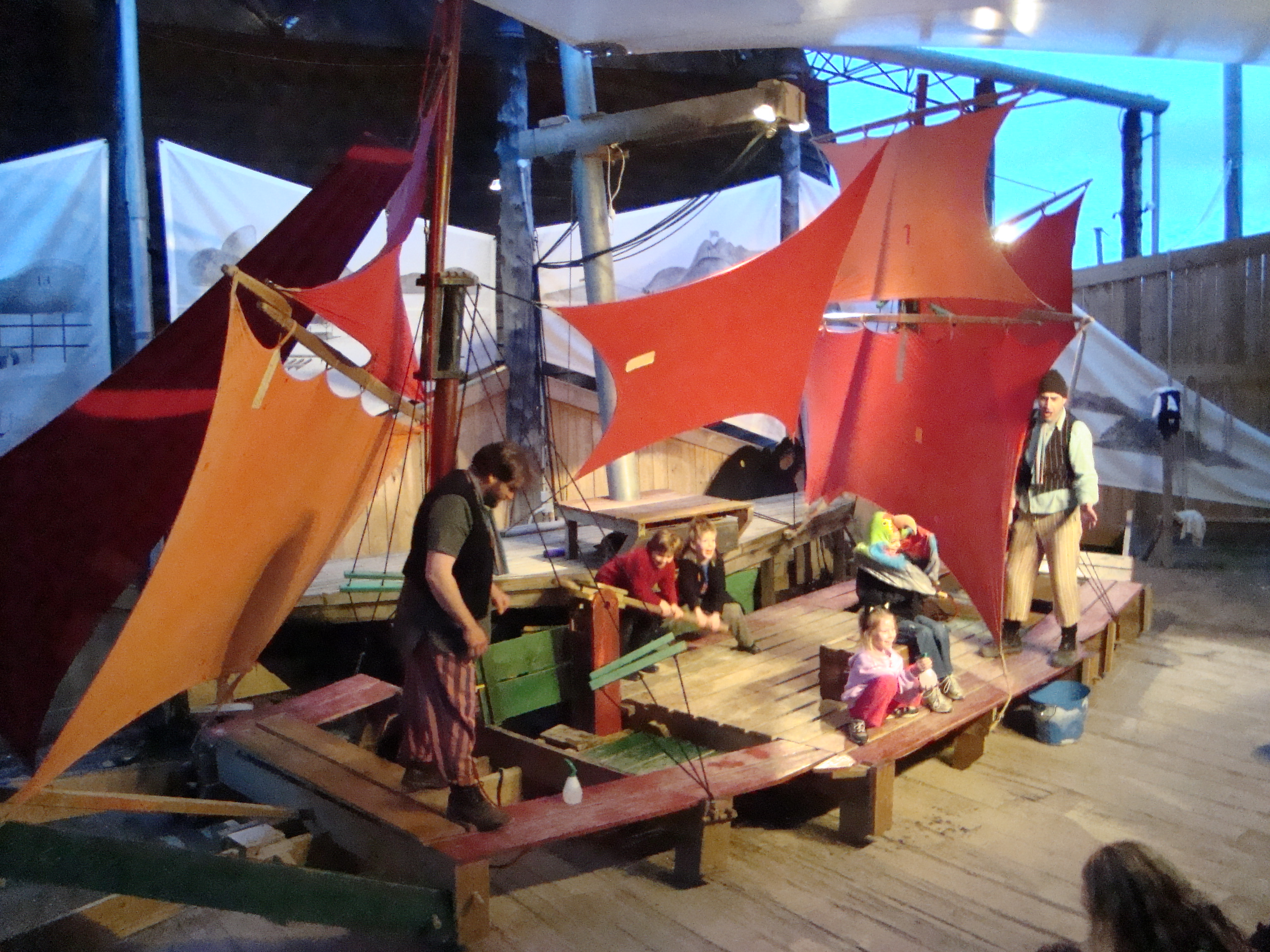 Australia's longest running play, "The Ship That Never Was', is performed nightly at the Strahan visitor centre. The play tells the story of the last successful escape of 10 convicts from the Sarah Island Penal Colony in 1834. The two person play makes use of audience participation, and a mock ship is built on stage during the performance.